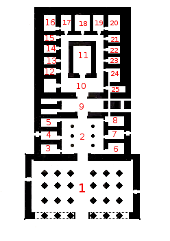 Plan of the Hathor temple in Dendera. [1] 1. Large Hypostyle Hall 2. Second, Small Hypostyle Hall 3. Laboratory 4. Storage Magazine 5. Offering Entry 6. Treasury 7. Exit to Well 8. Access to Stairwell 9. Offering Hall 10. Hall of the Ennead 11. Great Seat (central Shrine)/Main Sanctuary 12. Shrine of the Nome of Dendera 13. Shrine of Isis 14. Shrine of Sokar 15. Shrine of Harsomtus 16. Shrine of Hathor's Sistrum 17. Shrine of Gods of Lower Egypt 18. Shrine of Heathor 19. Shrine of the Throne of Re 20: Shrine of Re 21. Shrine of Menat Collar 22. Shrine of Ihy 23. The Pure Place 24. Court of the First Feast 25. Passage 26. Staircase to Roof